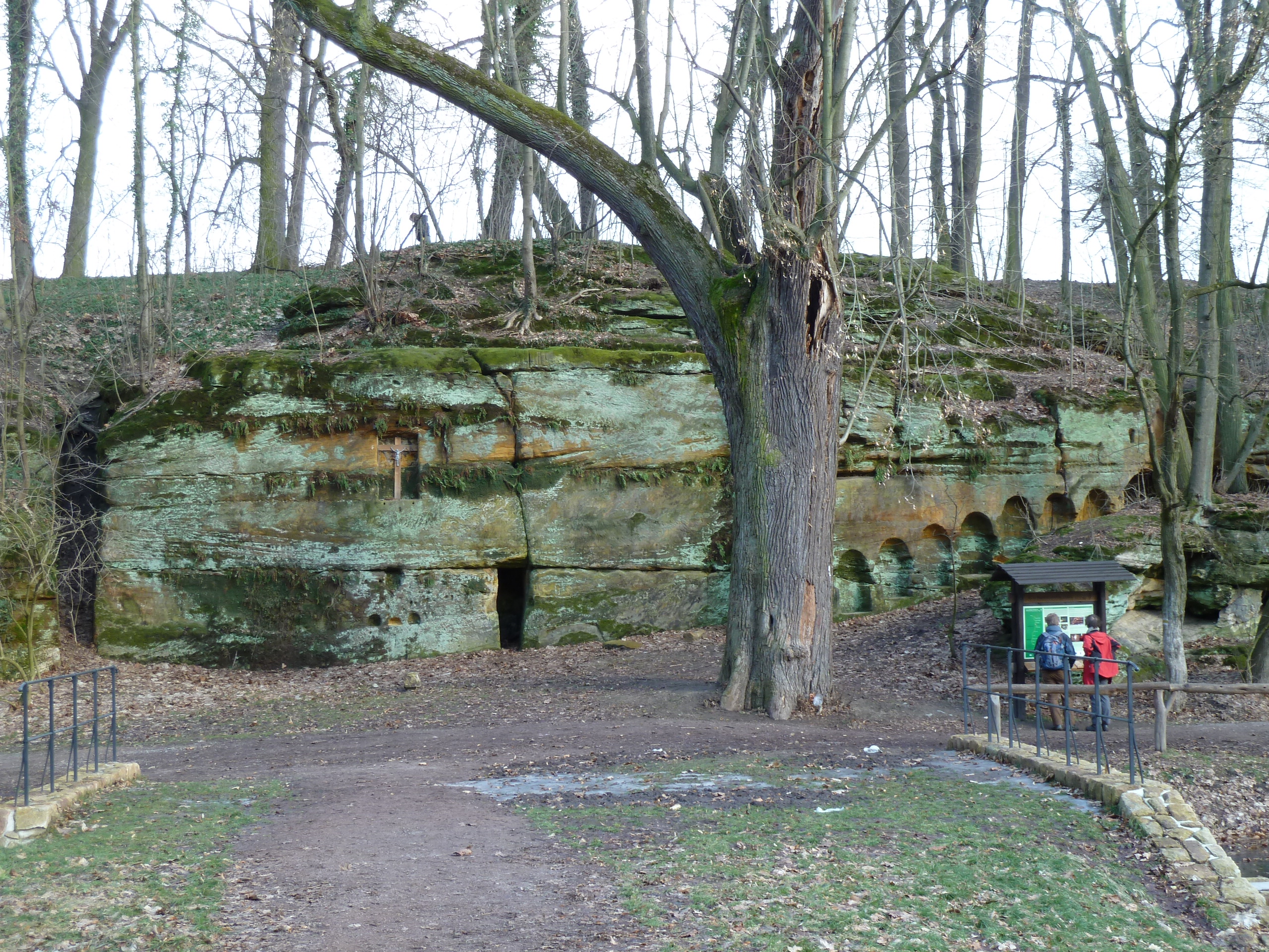 Vinorsky park - Nature Reserve